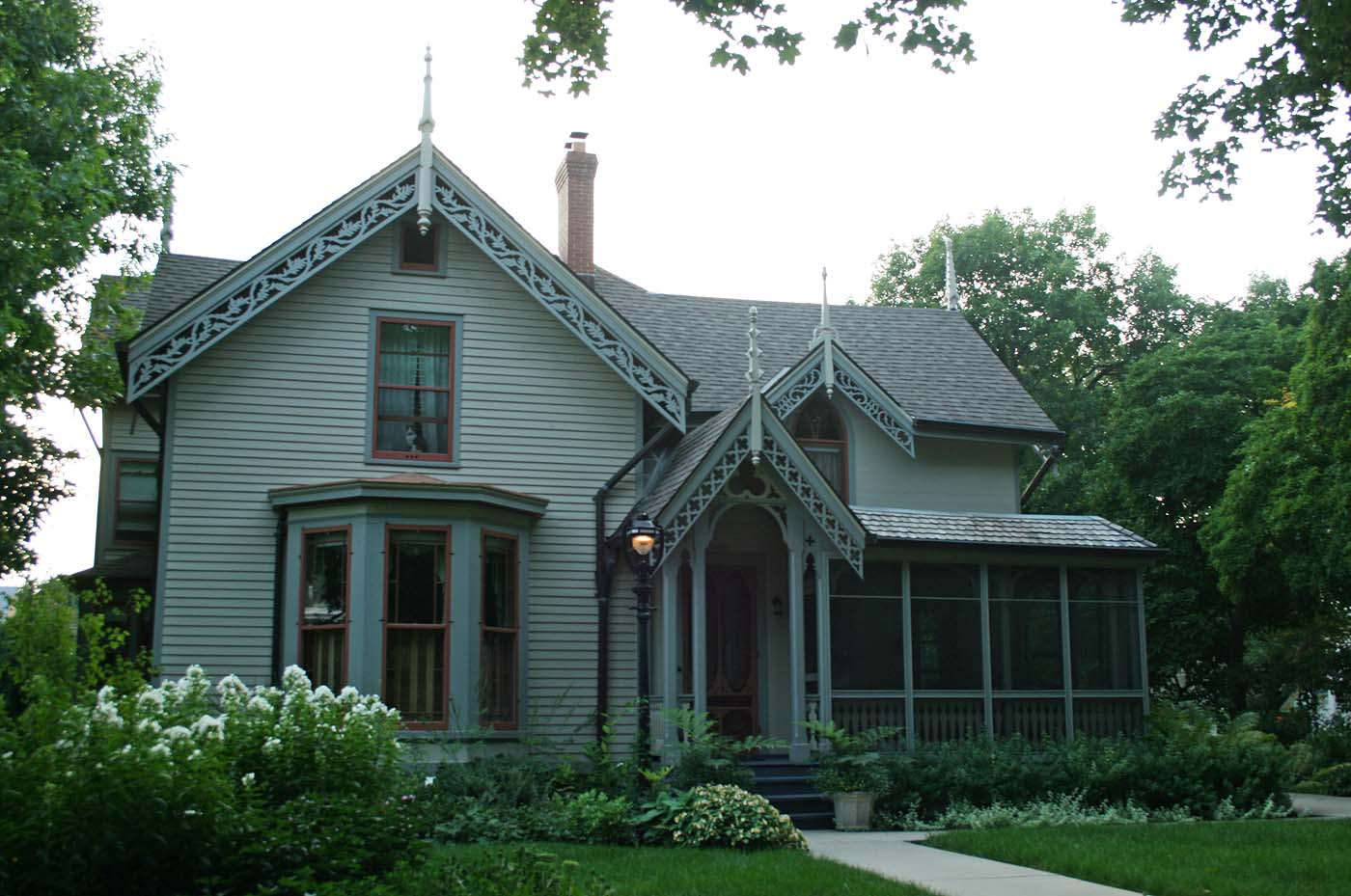 Thomas Hart House, Registered Historic Place, Wauwatosa, Wisconsin.